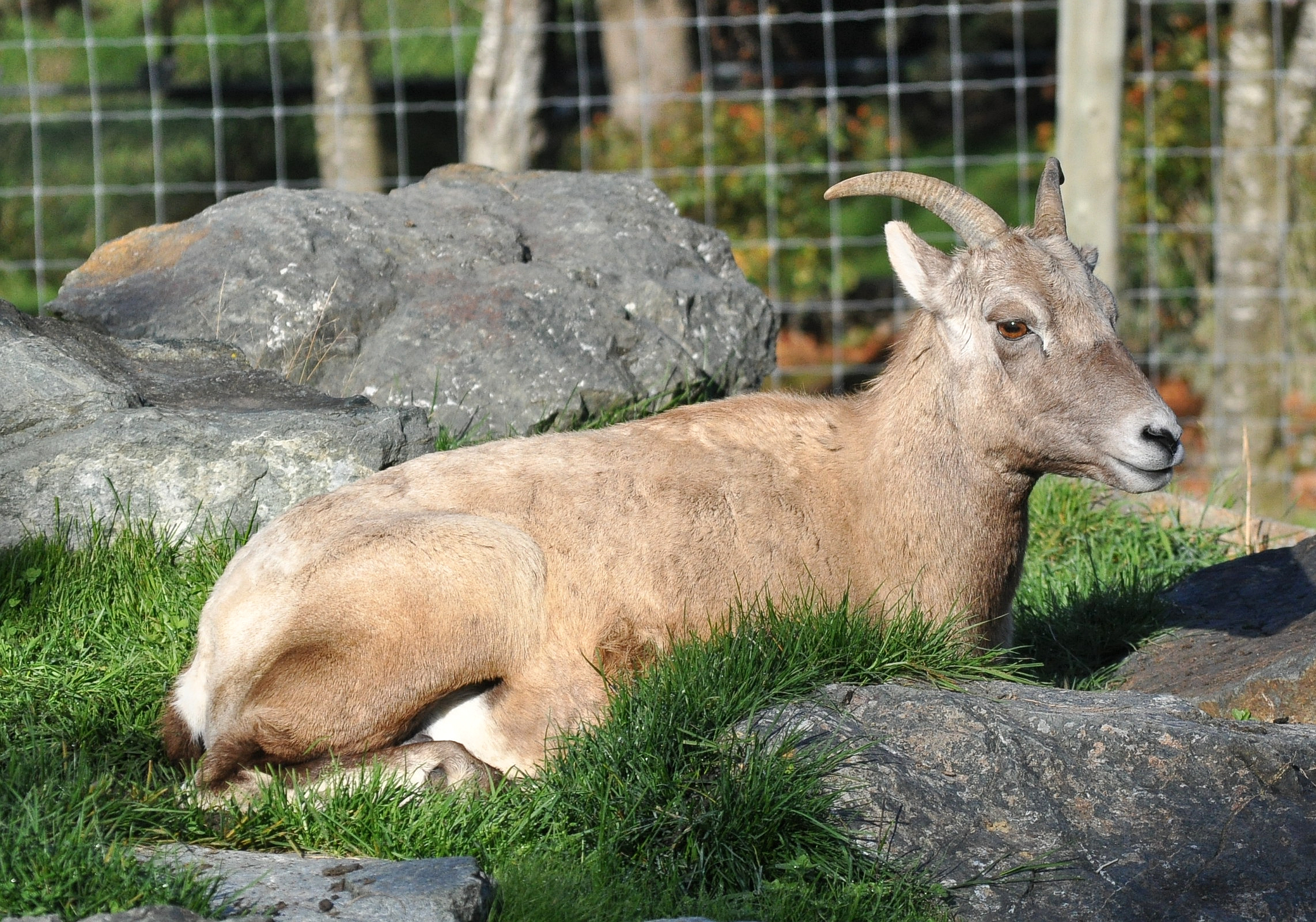 An ewe Bighorn Sheep (Ovis canadensis) at the Greater Vancouver Zoo.